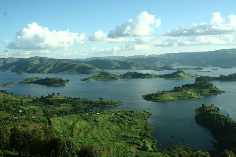 Lake Bunyonyi